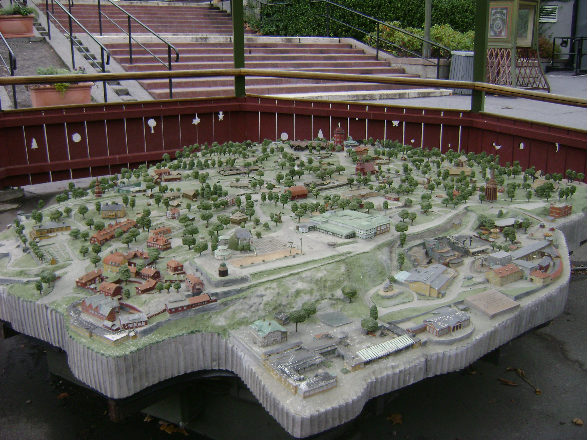 Sweden. Stockholm. Djurgården. Open air museum